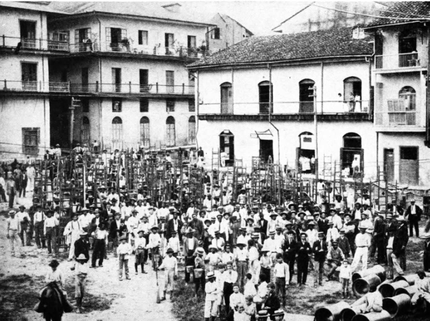 The name of the illustration is the same as the caption in this book about Panama and it's History (c) 1916.